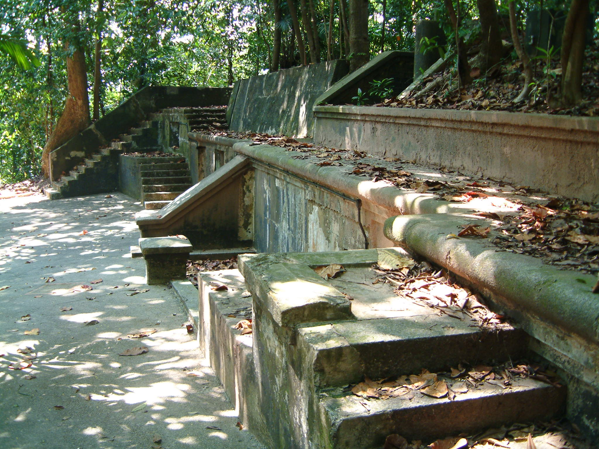 Remains of the old fort and underground bunkers in Labrador Park, Singapore